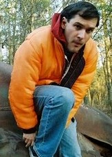 Emil Amos, songwriter and drummer, also known as the solo member of the group "Holy Sons". Date of photo is approximate.